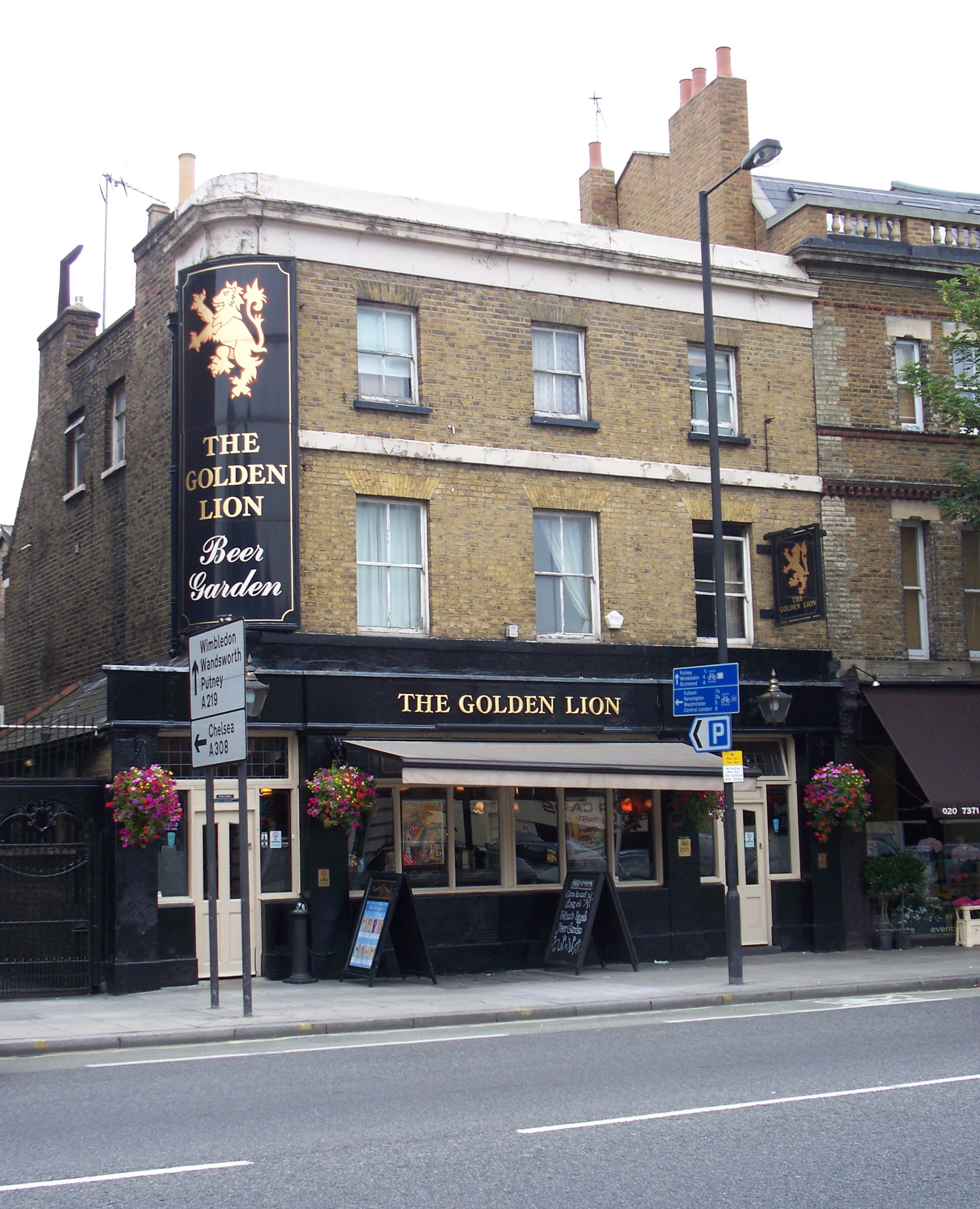 The Golden Lion, Fulham High Street, London. Photograph taken in a public location in the UK of a building on permanent public display, and exempt from copyright under Section 62 of the Copyright Designs & Patents Act 1988 ("it is not an infringement of copyright to film, photograph, broadcast or make a graphic image of a building, sculpture, models for buildings or work of artistic craftsmanship if that work is permanently situated in a public place or in premises open to the public")